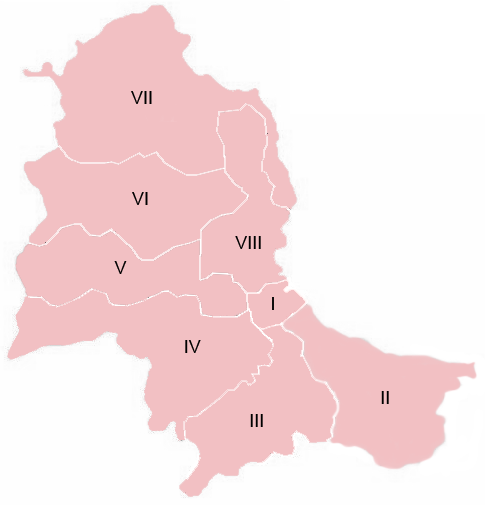 These are the quarters of Palermo, Sicily.